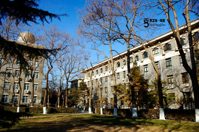 campus